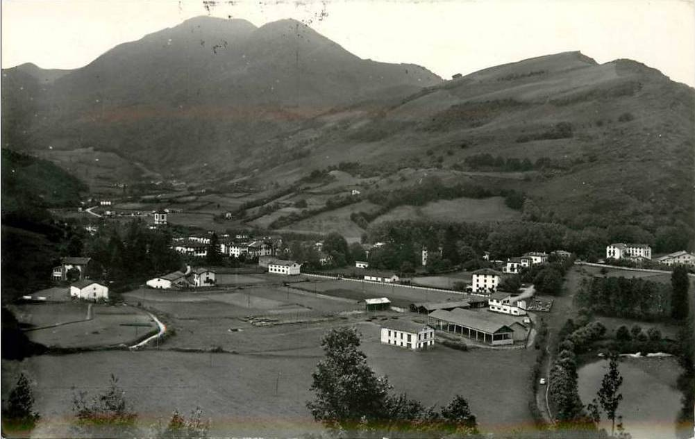 Old image of Doneztebe.